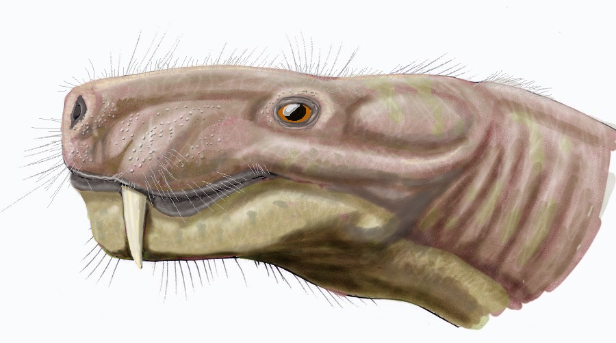 Head of Arctognathus sp., Late Permian of East Africa